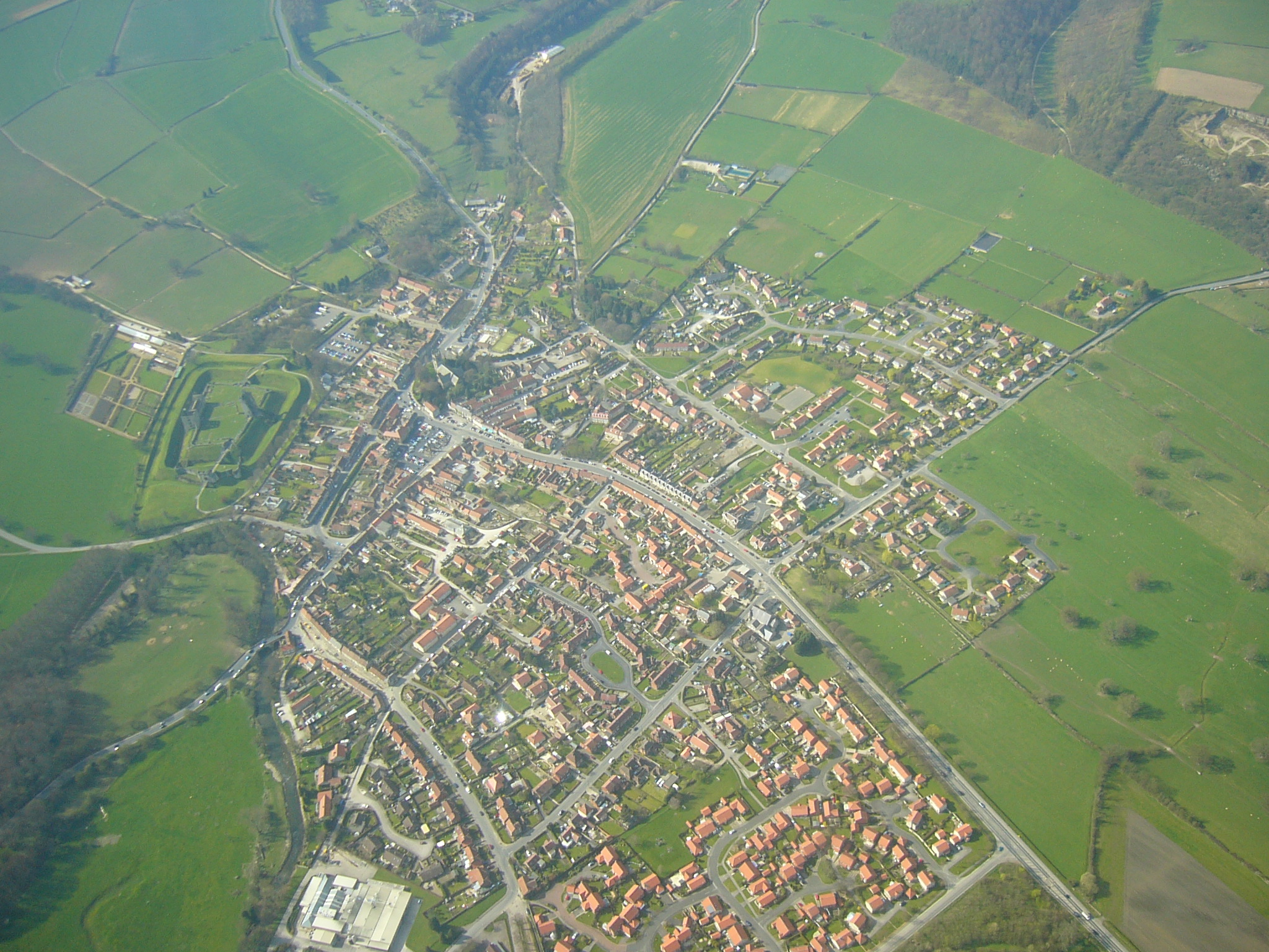 Aerial photo of Helmsley in North Yorkshire, England. The photo is looking roughly NNE, with Helmsley Castle is visible on the left side of the photograph.